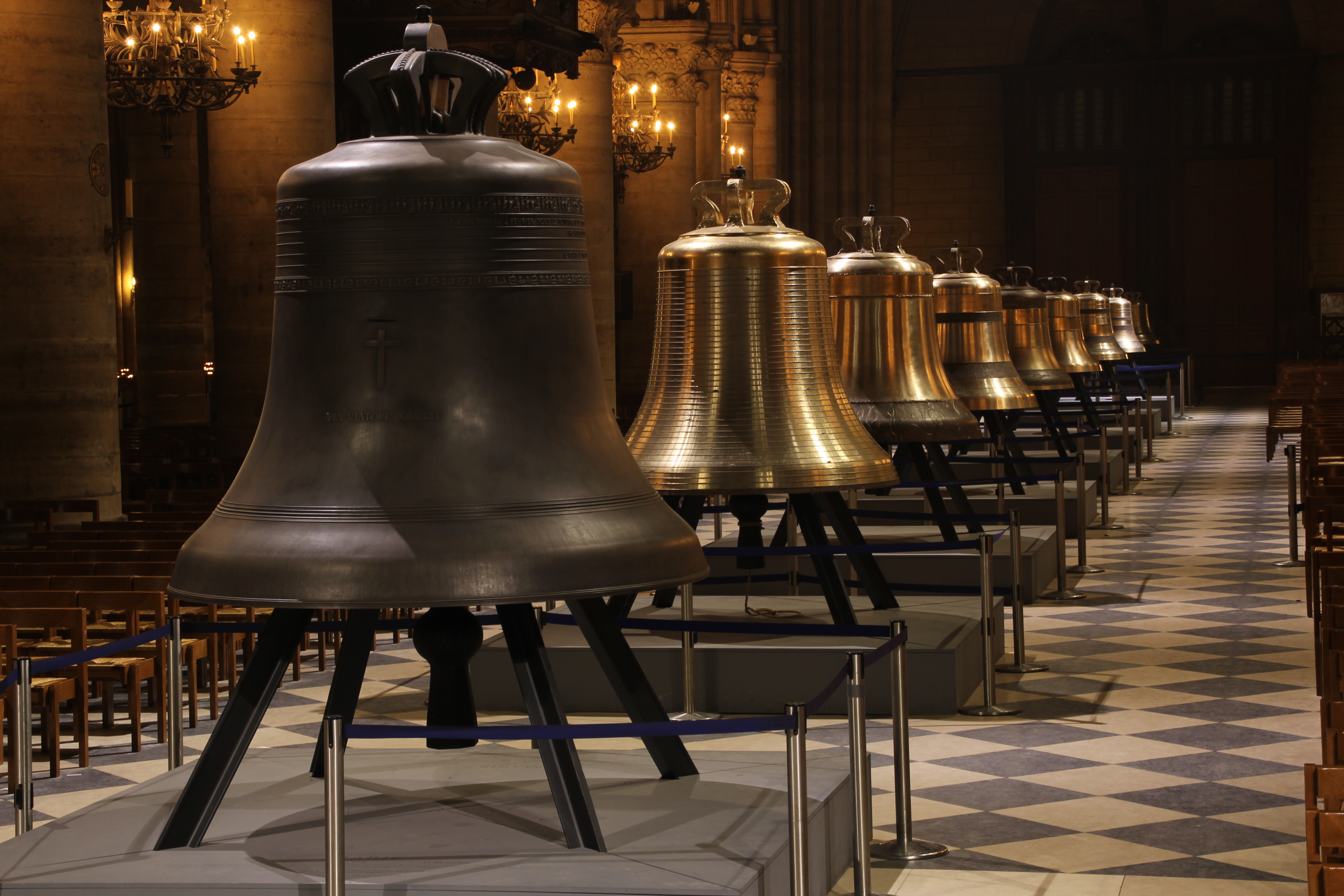 Visit of the cathedral during the exhibition of the new bells in Notre-Dame de Paris, France in 2013.